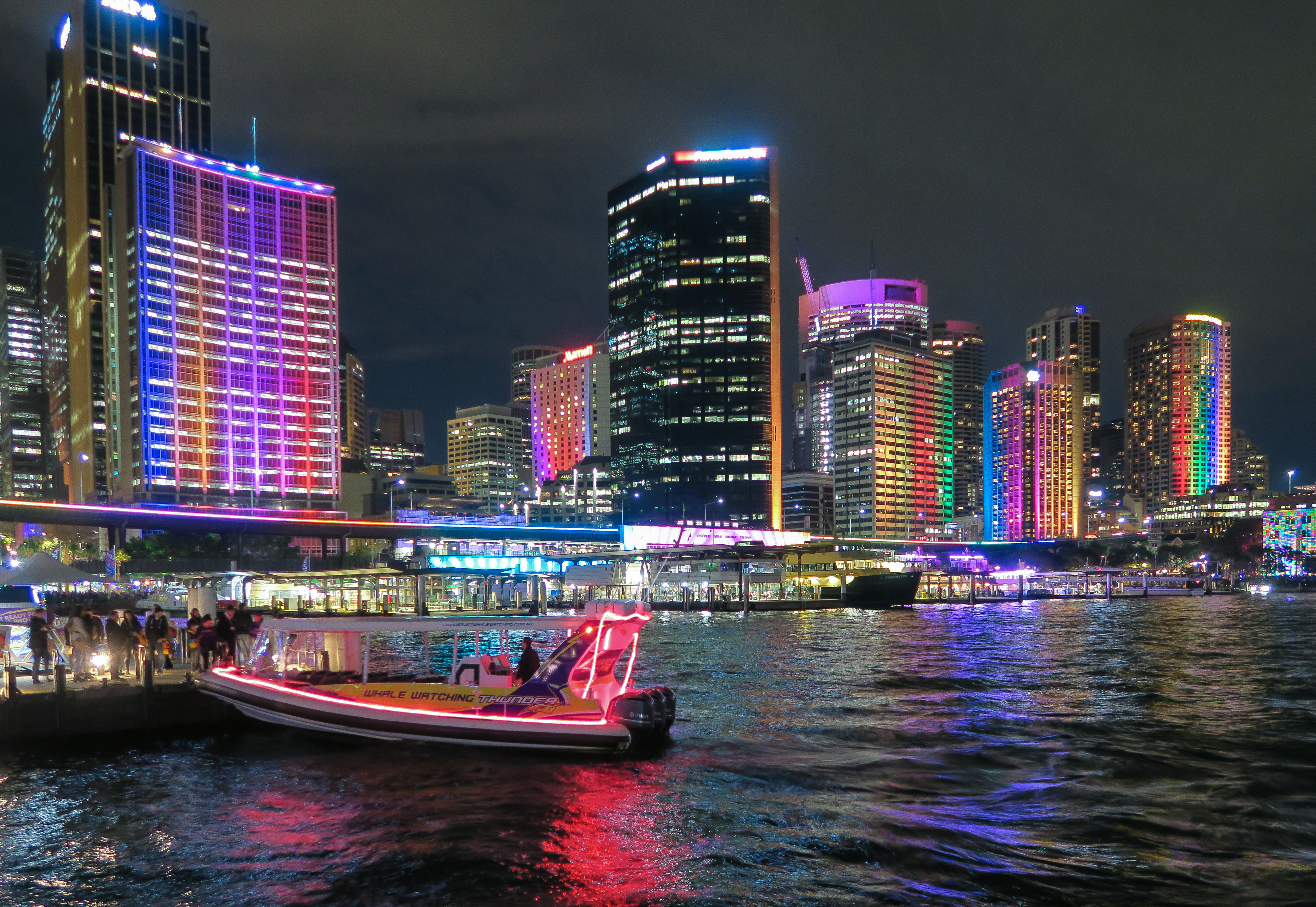 The Sydney skyline during Vivid Sydney